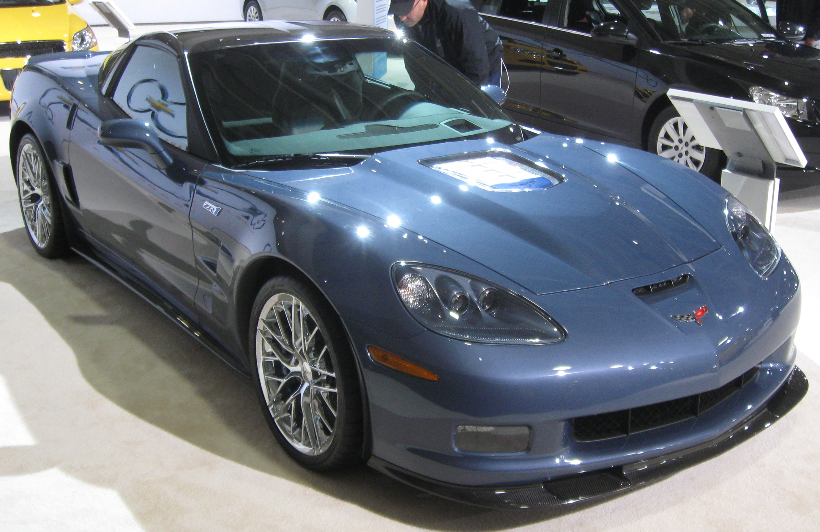 2011 Chevrolet Corvette ZR1 photographed at the 2011 Washington (D.C.) Auto Show.